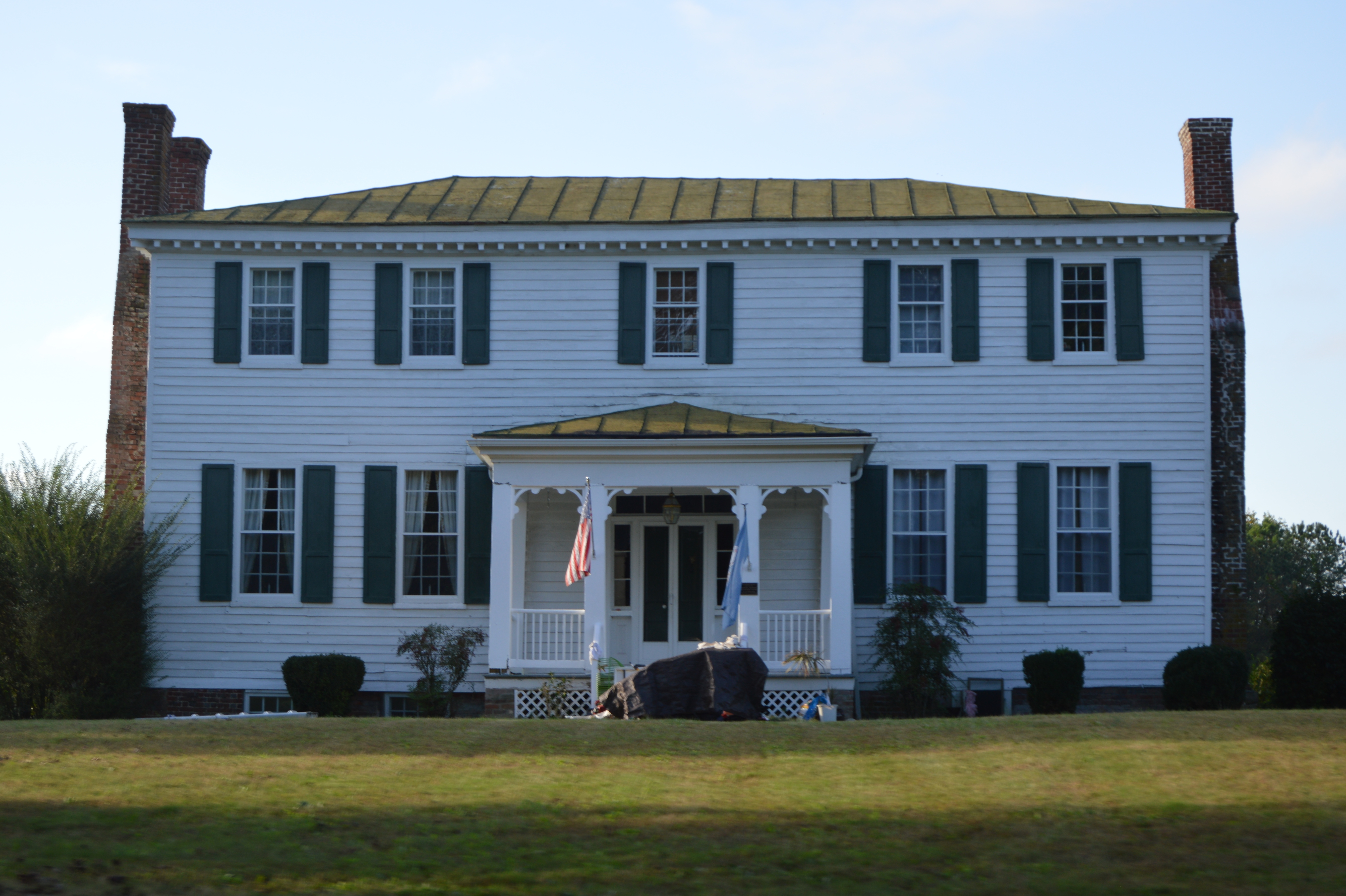 Front of the Barrett-Chumney House, located at 2400 Richmond Road south of Mannboro in Amelia County, Virginia, United States. Built in 1823, it is listed on the National Register of Historic Places.